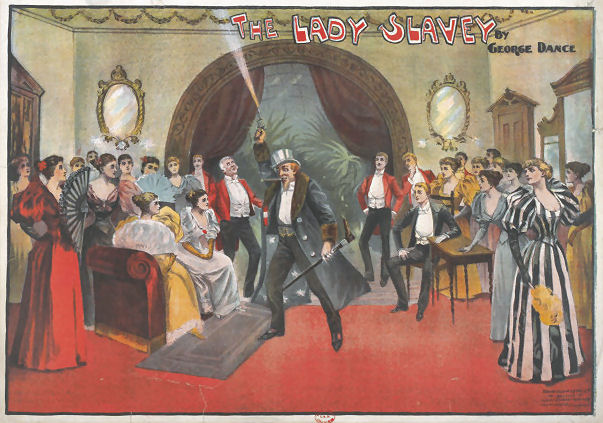 Scan of a poster for the original London production of 'The Lady Slavey' (1894) at the Avenue Theatre